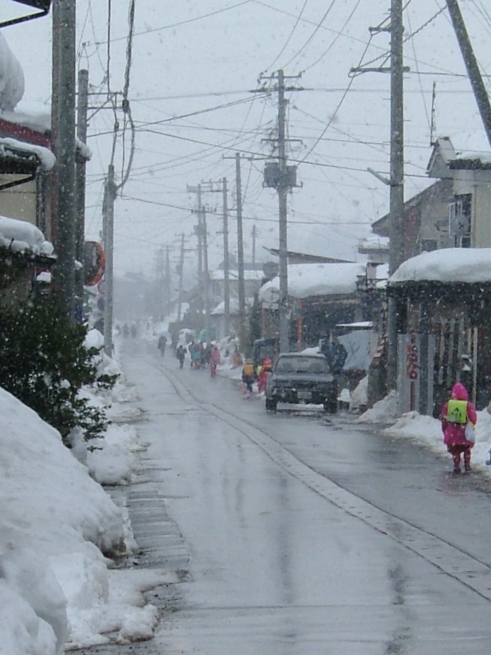 Students leaving Ringo Elementary School, February 2005. I took this photo with a digital camera on 25 February 2005.